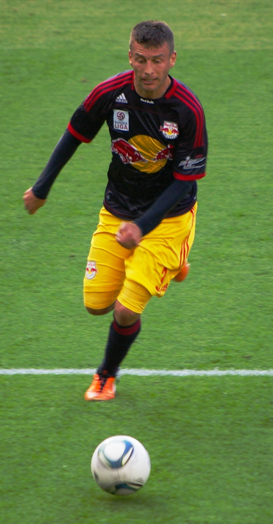 defender FC Salzburg